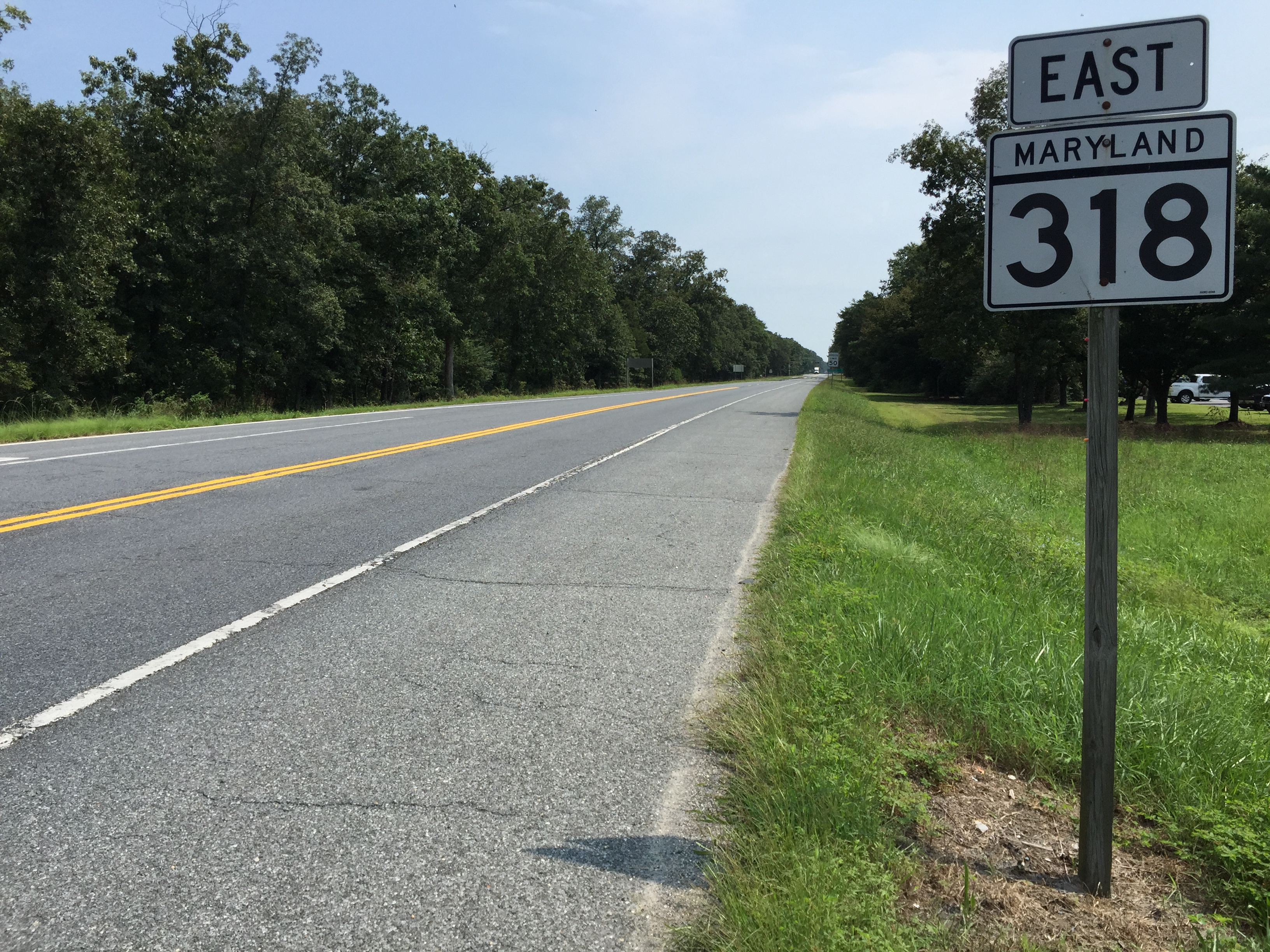 View east along Maryland State Route 318 (Federalsburg Bypass) at Maryland State Route 313 (Reliance Avenue) in Federalsburg, Caroline County, Maryland